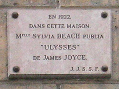 Memorial plaque at 12, Rue de l'Odeon Paris, France (where Sylvia Beach's bookstore „Shakespeare & Company“ was located)